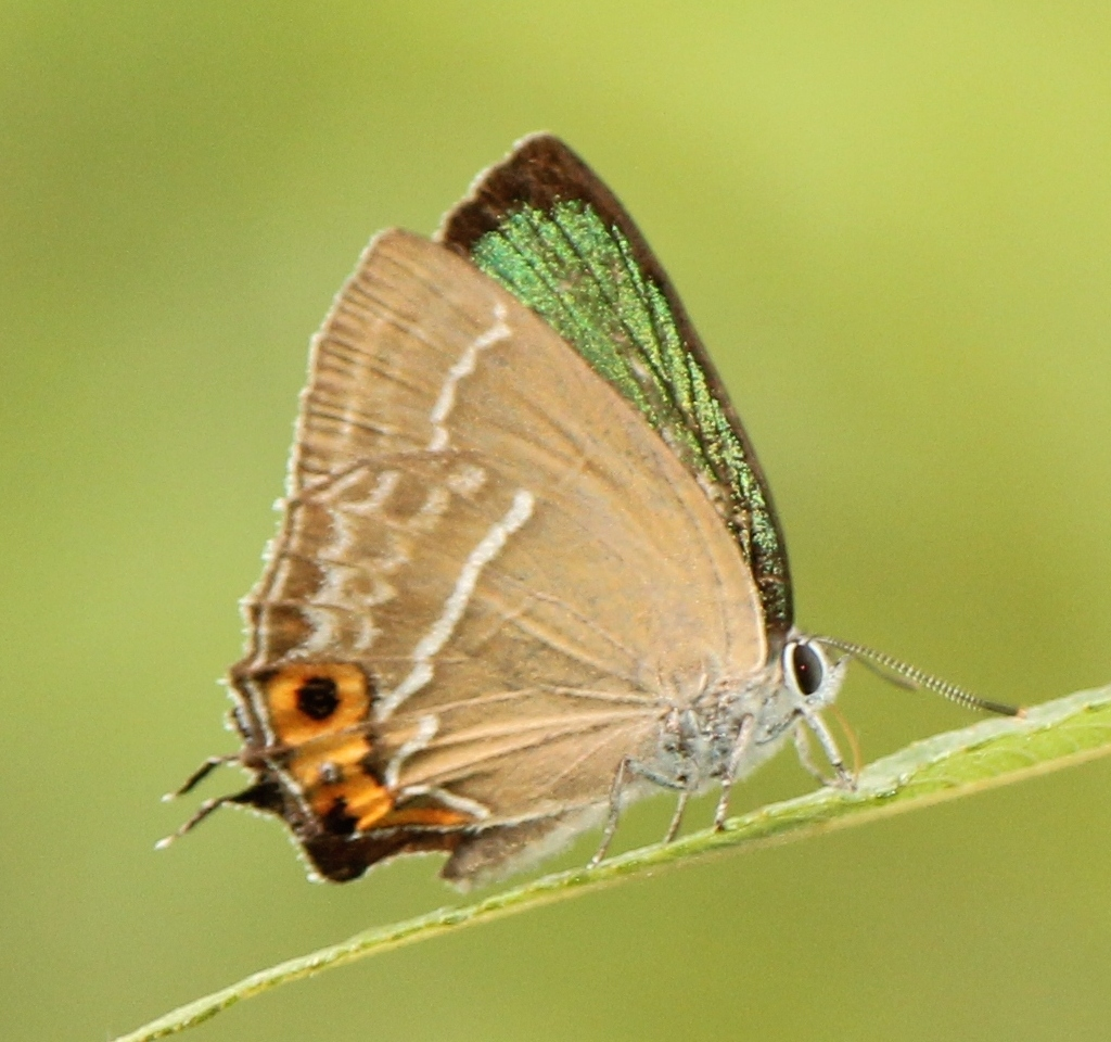 Neozephyrus japonicus japonicus, male, in Fukui pref., Japan.